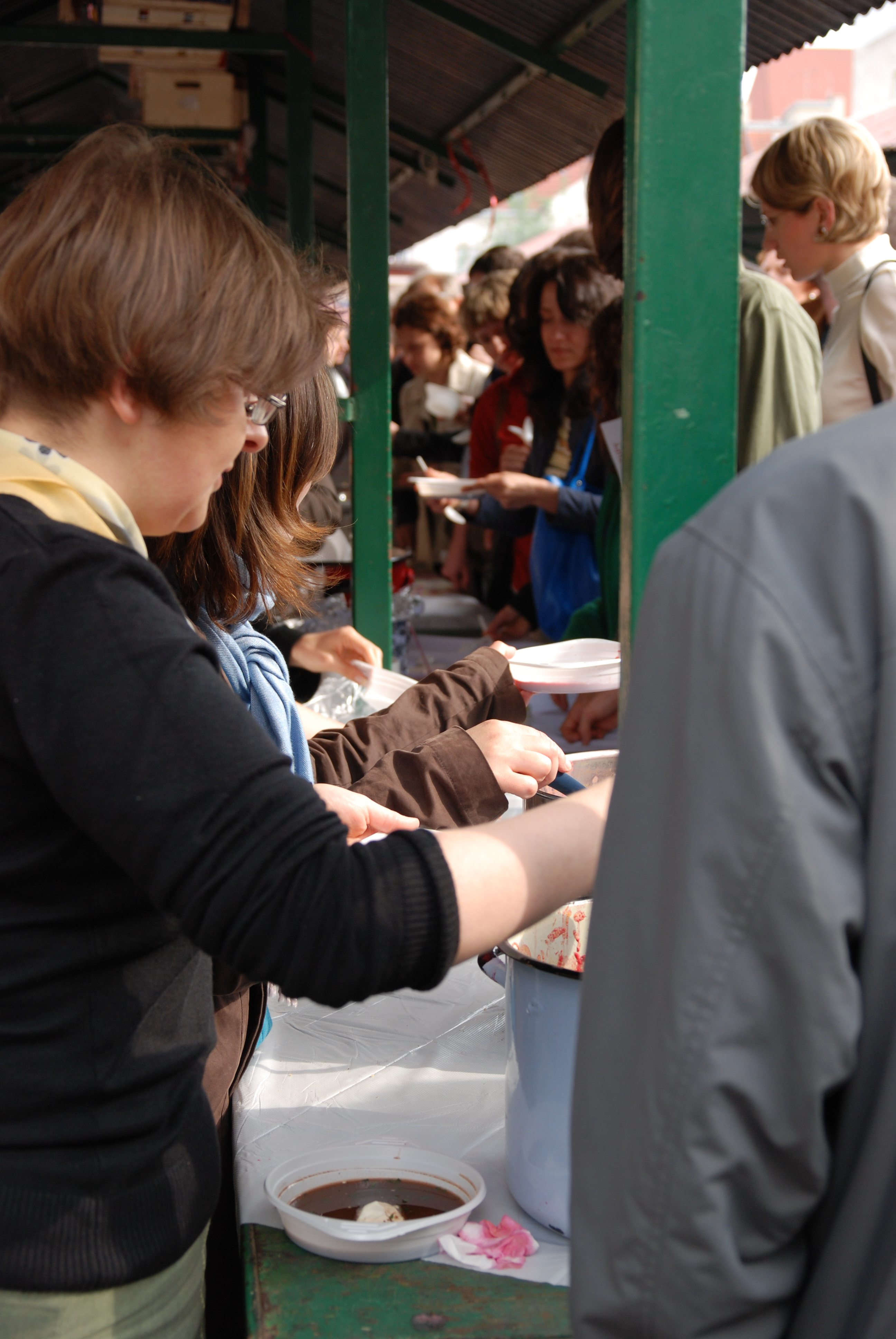 Soup Festival in Kraków 2008